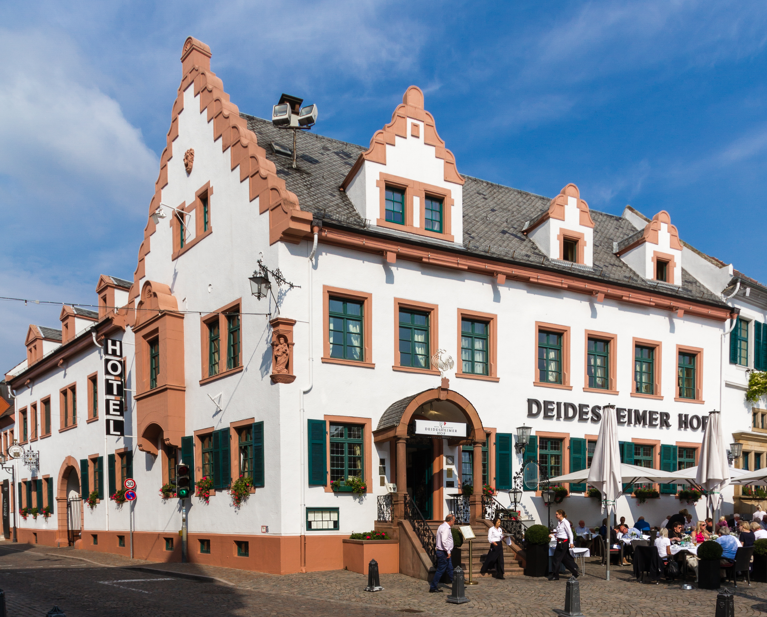 This is a photograph of an architectural monument.It is on the list of cultural monuments of Deidesheim Designation: Deidesheimer Hof Construction time: designated 1703 Description: Baroque, in the early 20th century reshaped farmstead. Stately angular building, niche figure around 1710. Placescape formative Place: Municipality Deidesheim, Collective municipality Deidesheim, District Bad Dürkheim, Rhineland-Palatinate, Germany Location: Weinstraße House number: 29